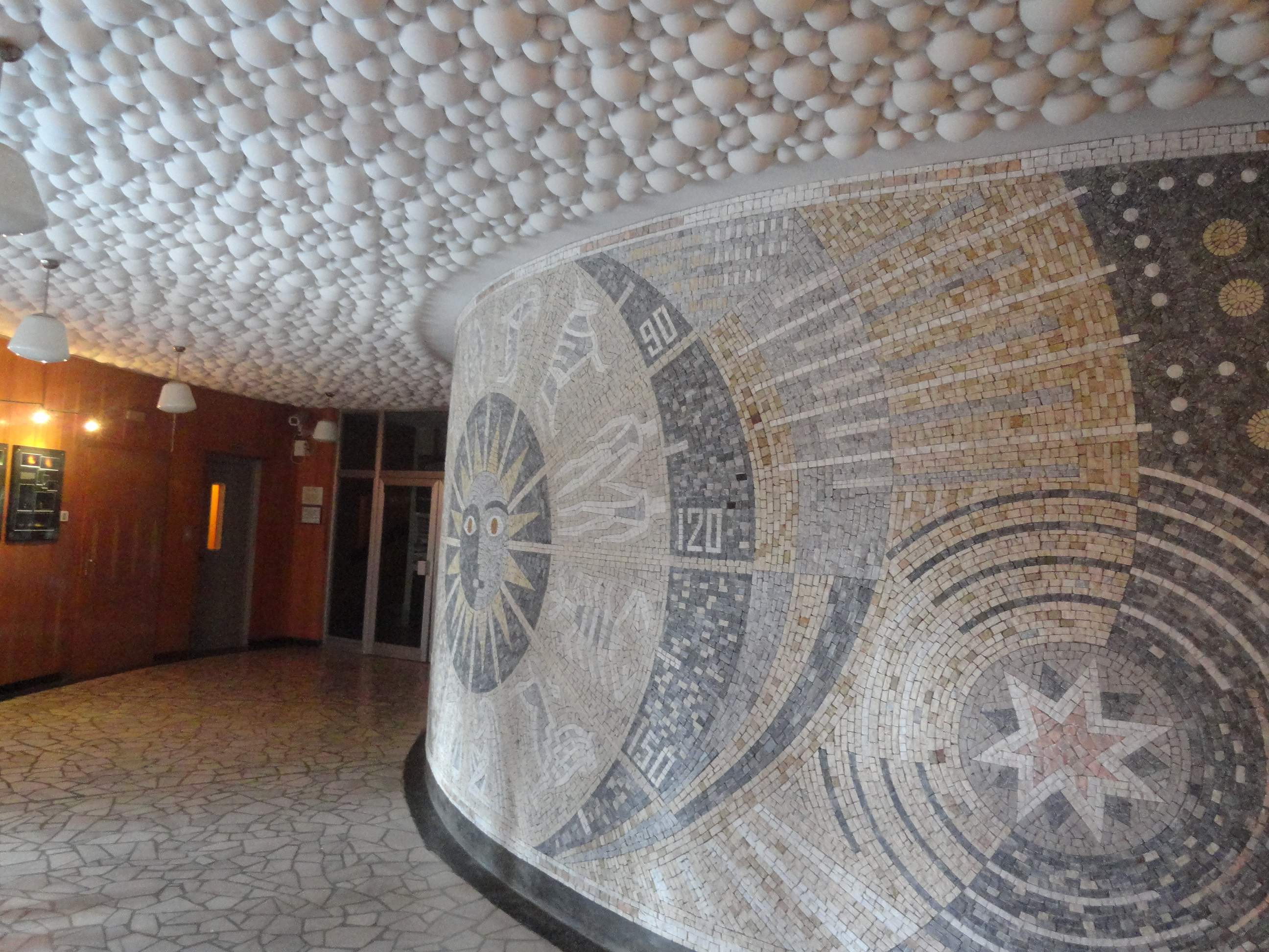 Visit my blog at DZHINGAROV BLOG. You can find awesome posts and photos at my blog. This is The Observatory in Rozhen, Bulgaria. It is situated in Rhodopa Mountain.